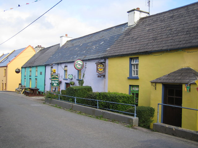 Cloghane This is O'Connor's Bar and Guesthouse whose website is here The black plaque on the turquoise coloured house commemorates the deaths of airmen in four separate plane crashes near to Mount Brandon during the Second World War.